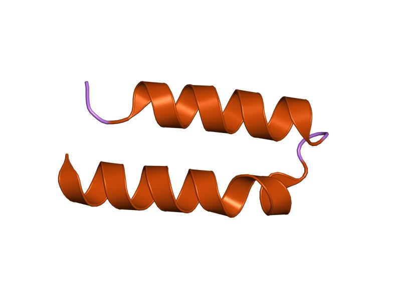 Cartoon representation of the molecular structure of protein registered with 1ei0 code.